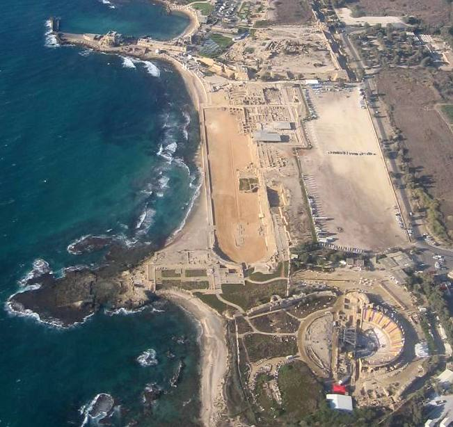 Caesarea Maritima